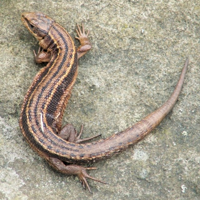 Common Lizard (Zootoca vivipara) (Older synonym: Lacerta vivipara. Also known as Viviparous Lizard.) I noticed this lizard (whose patterning suggests that it is a female) sitting on a rock while I was walking along the adjacent footpath. I maintained as much distance from it as the path allowed, so as not to disturb it unduly; it scurried away after I had passed. This species is protected under Schedule 5 of the Wildlife and Countryside Act 1981.